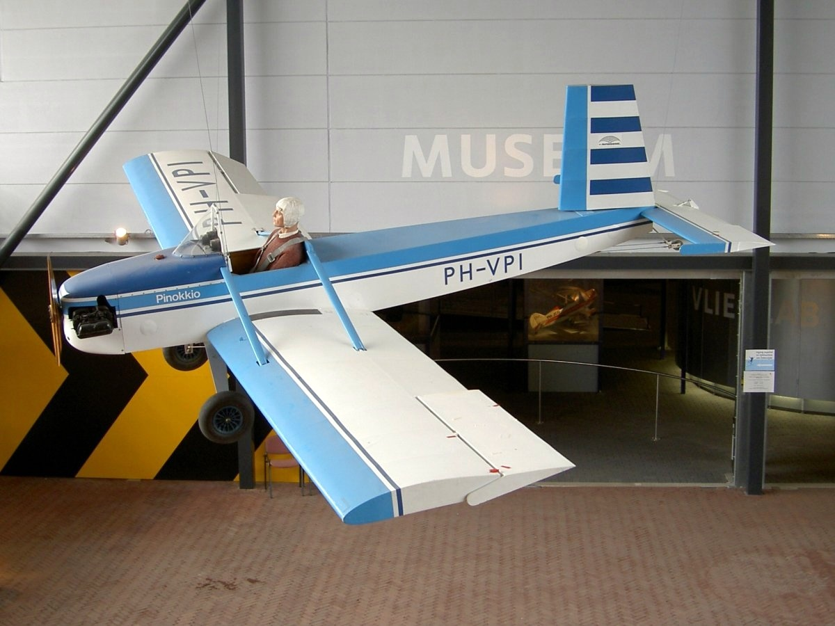 Photographed at Lelystad Airport.